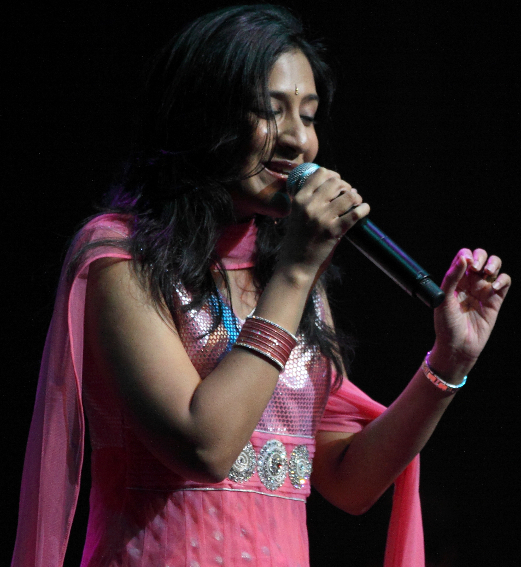 This media file is uploaded with Malayalam loves Wikimedia event - 2.